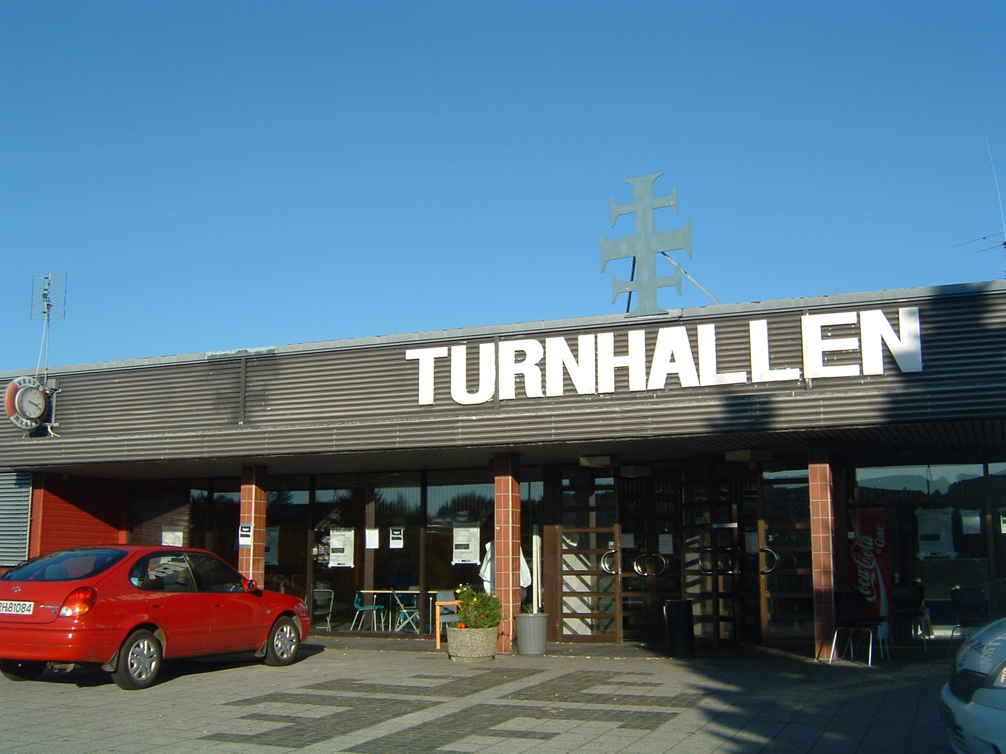 The front of Stavanger Turnhall right after warpzone 16 (LAN-party)